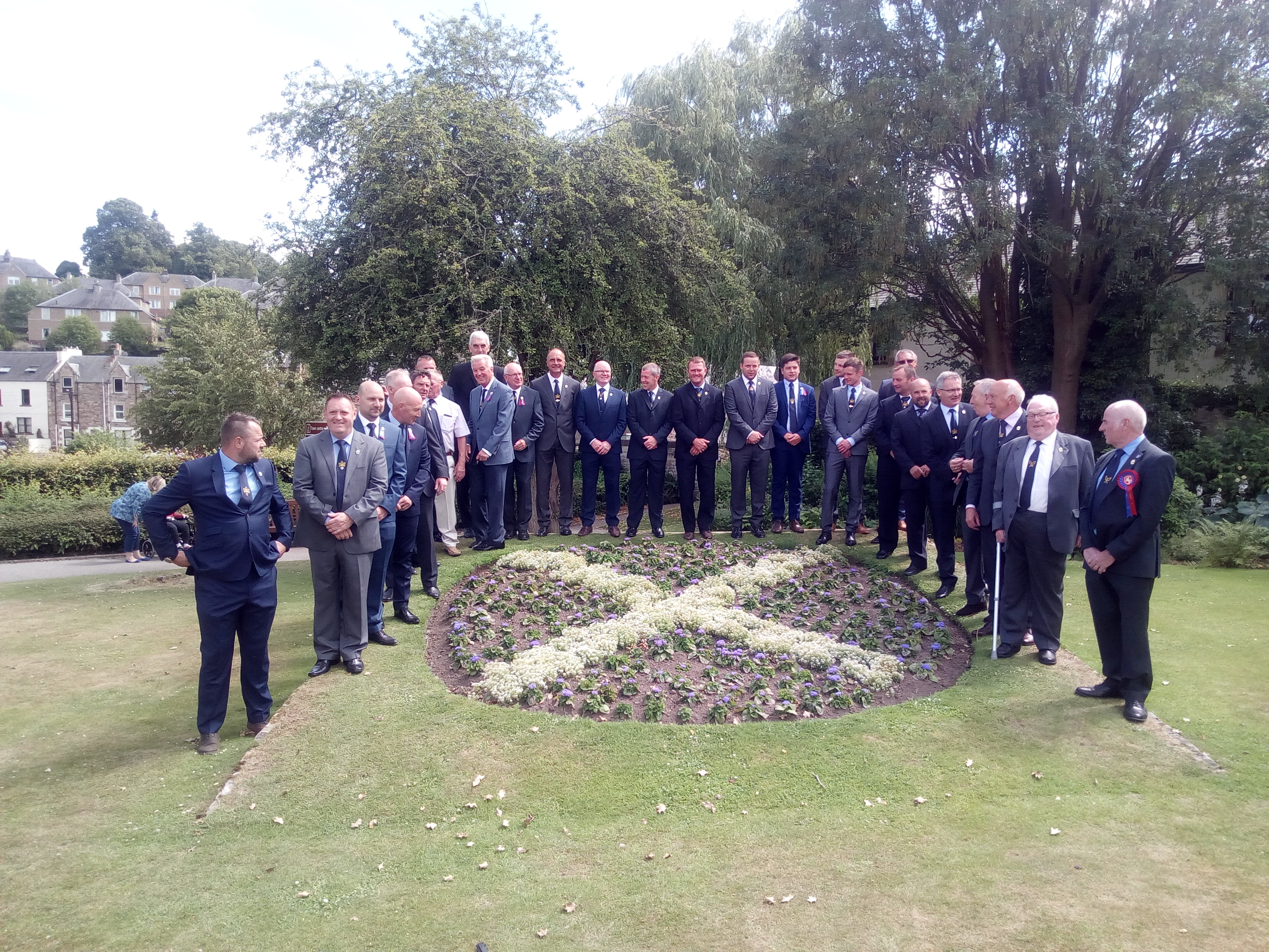 The previous callants are an important aspect of the Jedburgh Callants festival. here on the last day in 2018